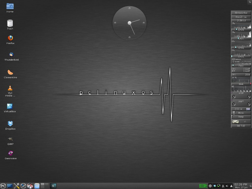 The PCLinuxOS 2011 desktop